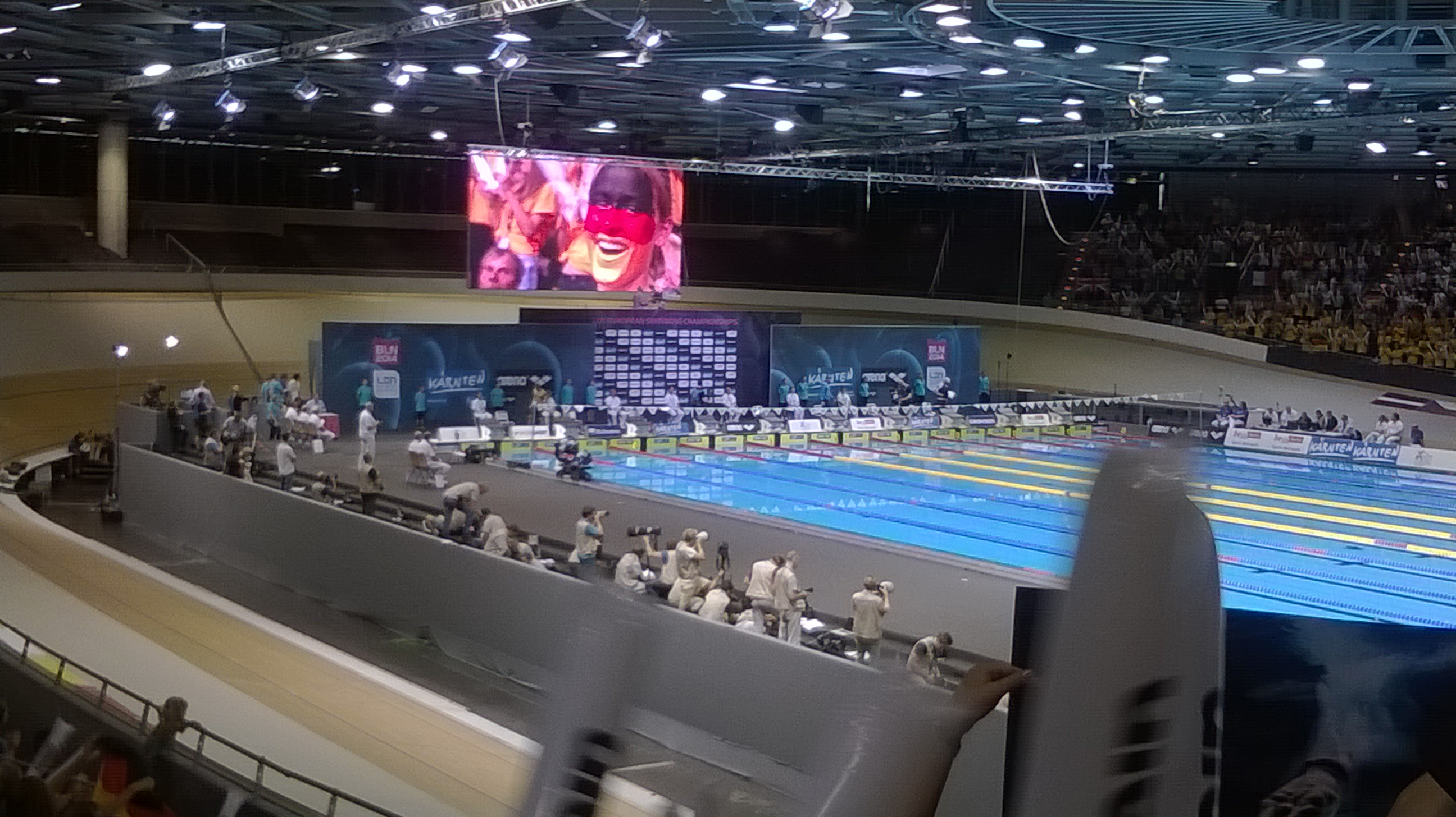 LEN European Aquatics Championships. Berlin. 2014-08-23.